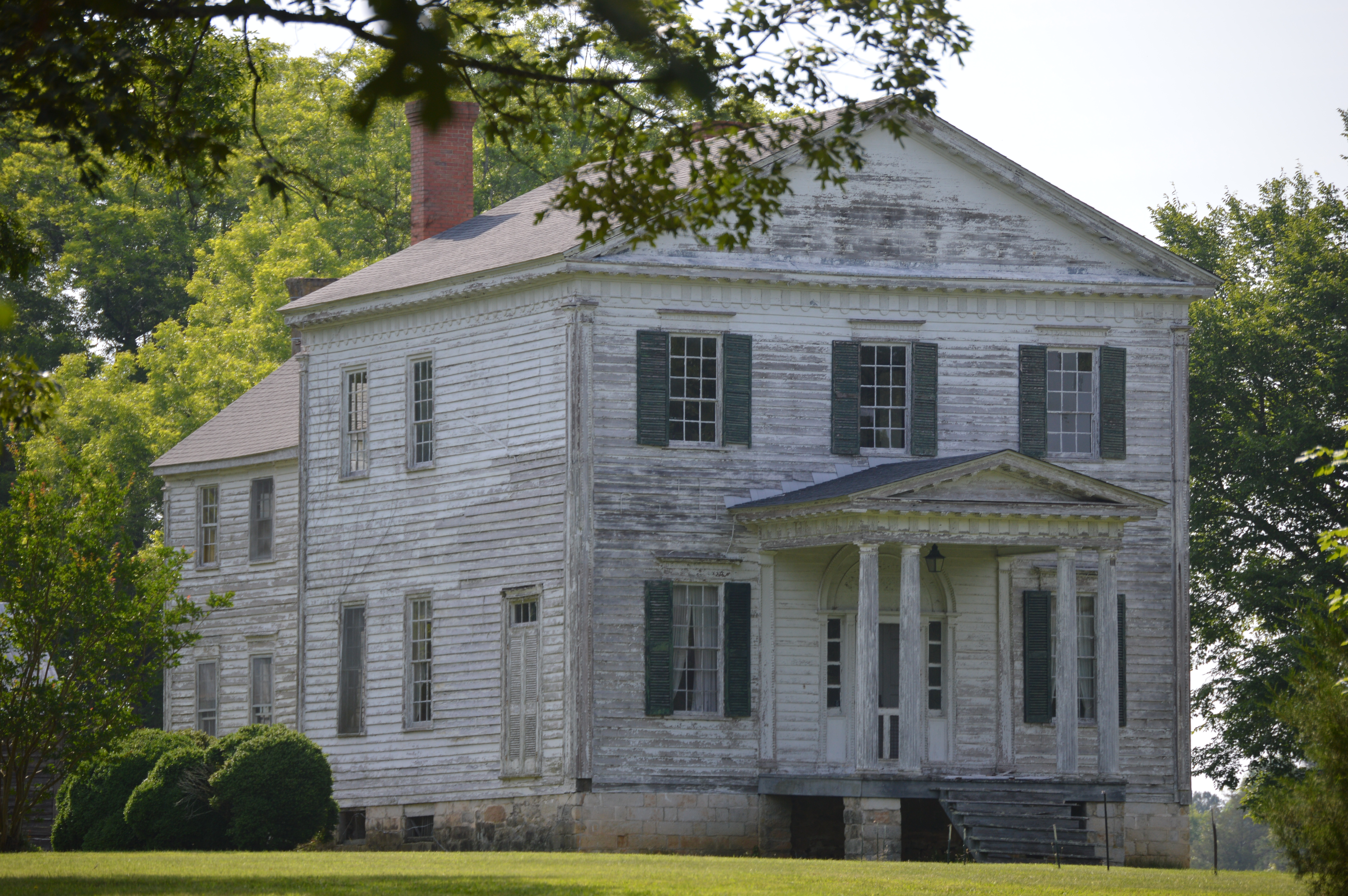 Front and northern side of Oakland, located along North Carolina Highway 4 at the crossroads of Airlie in Halifax County, North Carolina, United States. Built in 1823, it is listed on the National Register of Historic Places.